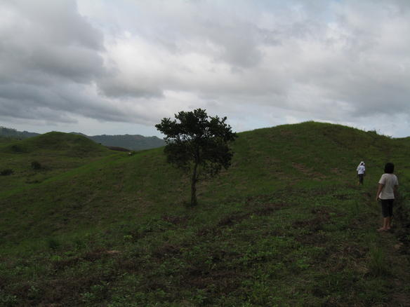 Biyong Hills, Masbate City, Masbate, Philippines